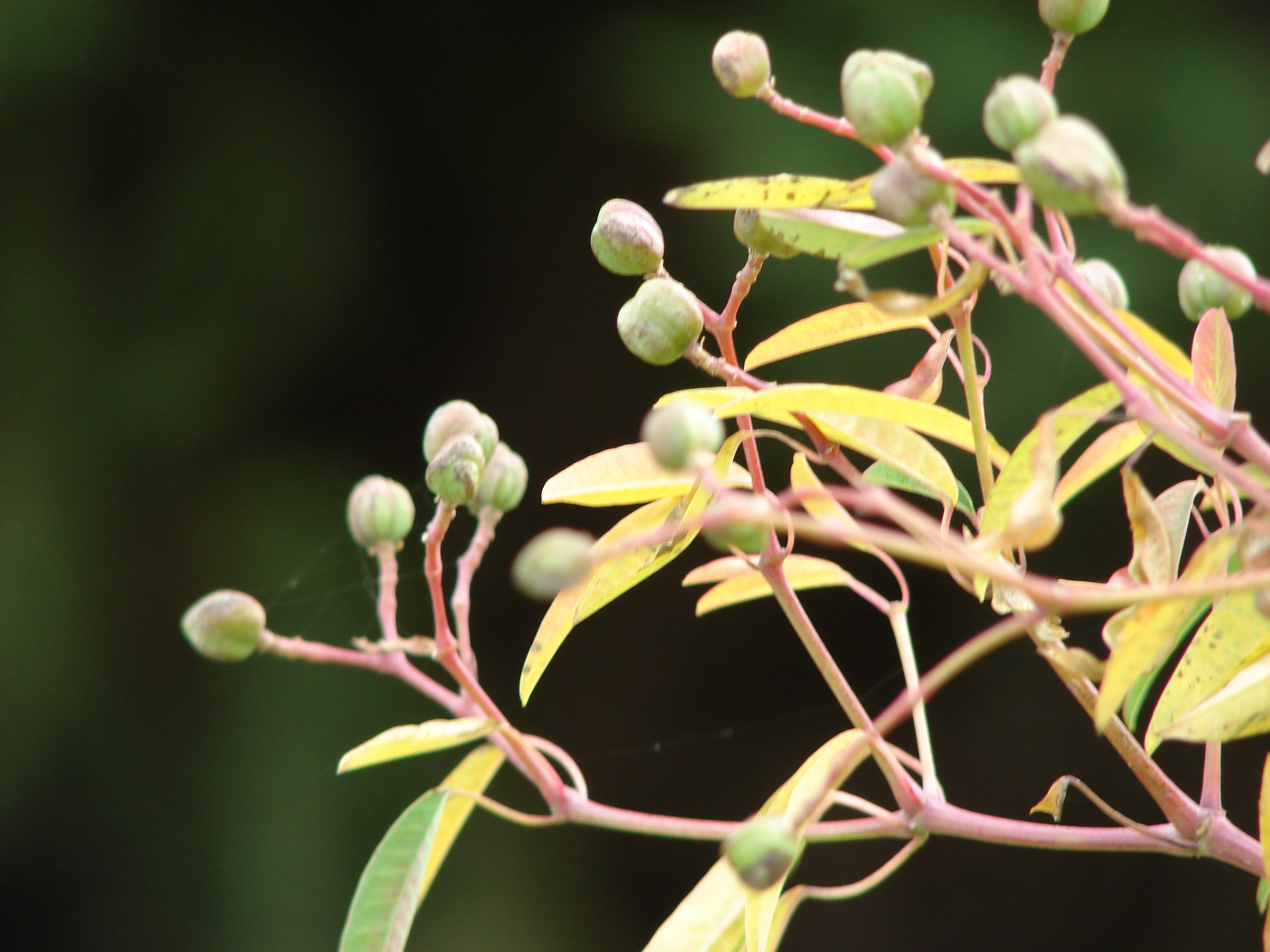 Euphorbia leucocephala (fruit). Location: Maui, MISC HQ Piiholo